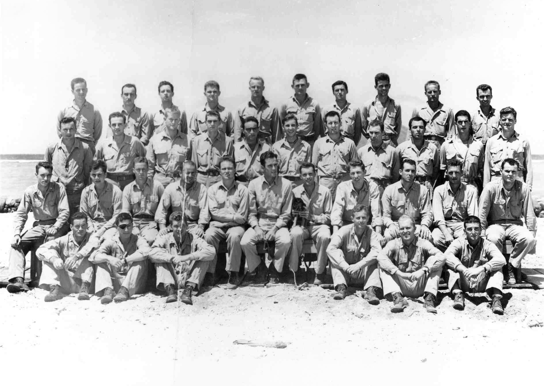 A group photograph of U.S. Marine Corps Fighting Squadron 223 (VMF-223) while in New Herbrides. Fighter ace Marion Carl can be seen in the center of the photograph.